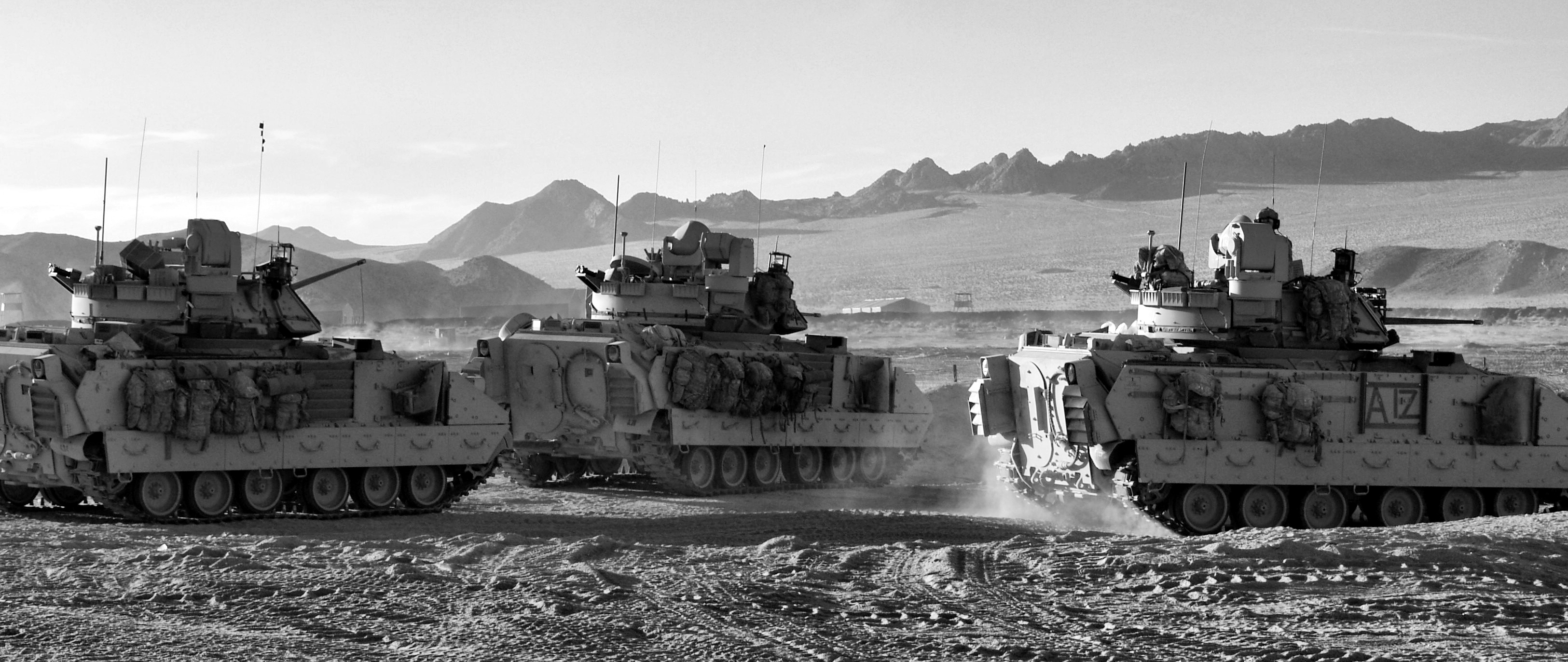 3 M2A3 Bradley's Prepare for Patrol